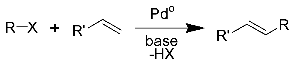 Reaction scheme of the Heck reaction.